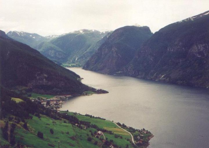 Sognefjord, Norway